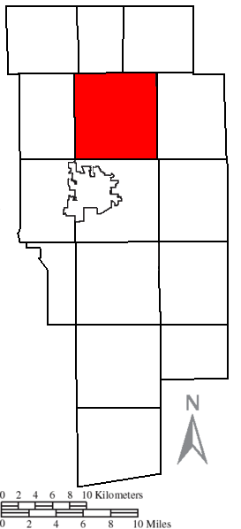 Originally created by the US Census. Modified by myself to highlight the township.